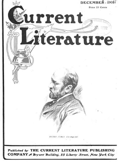 Current Literature, NY: Dec. 1901 (shows Henry James)